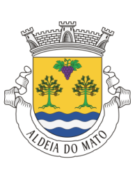 Coat of arms of Aldeia do Mato